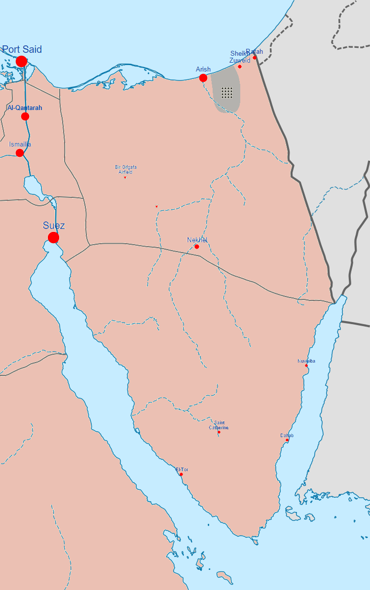 Map of the Sinai region insurgency. The map image is based on Template:Sinai insurgency detailed map. Controlled by the Egyptian government Controlled by the Islamic State of Iraq and the Levant (variously called ISIL, ISIS, IS, Daesh) and other jihadist groups